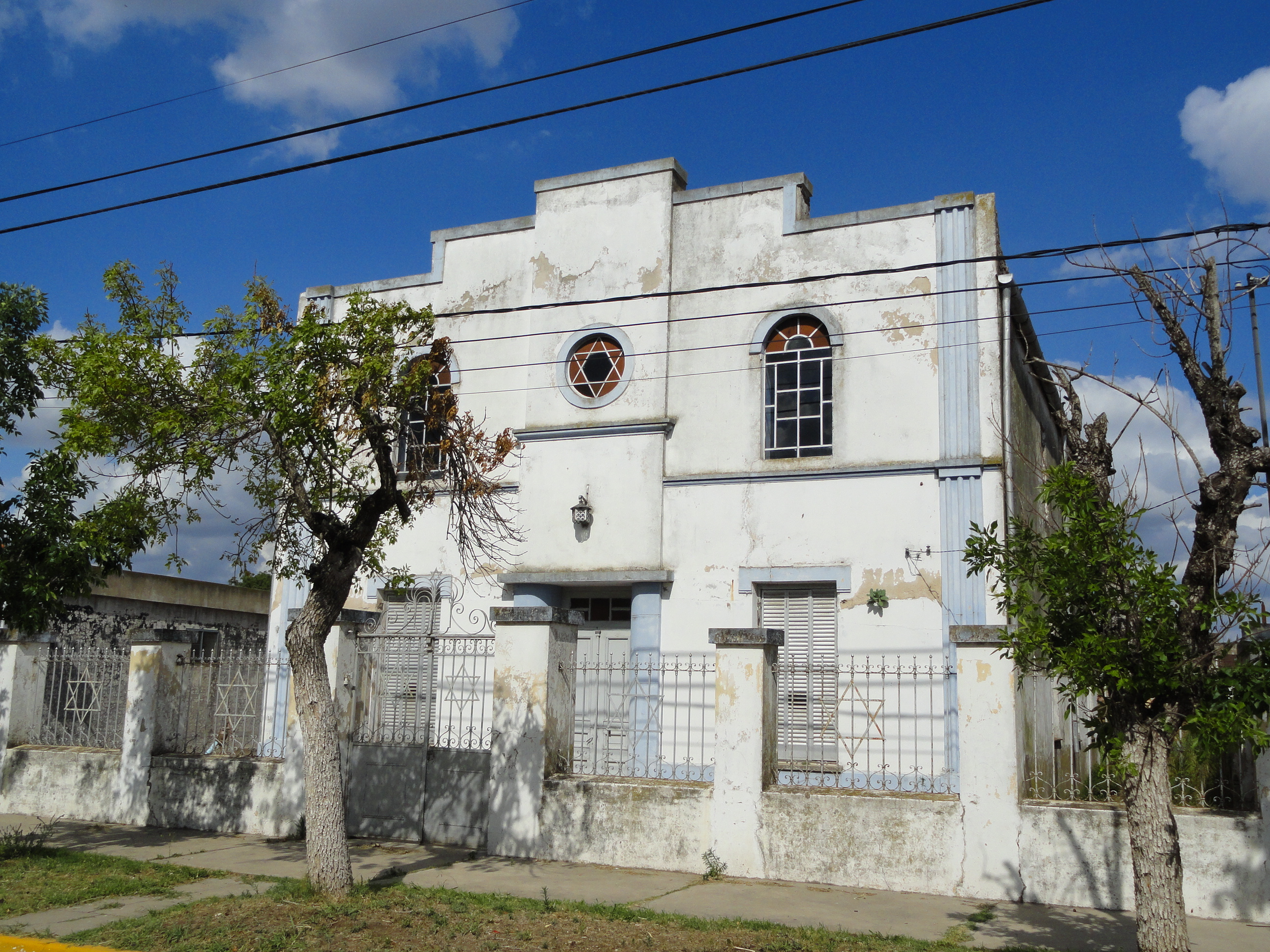 The worker's synagogue (Arbeter Shoul) in Moisés Ville, Argentina